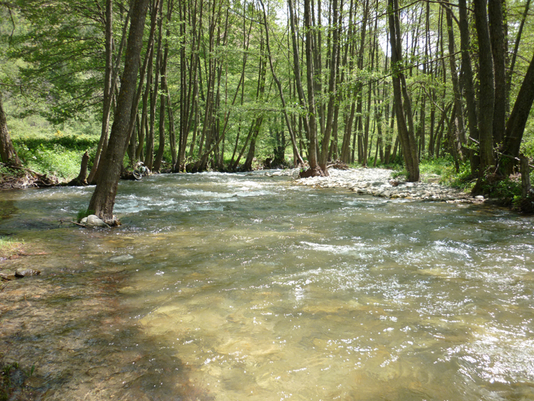 Neto River near the city of San Giovanni in Fiore